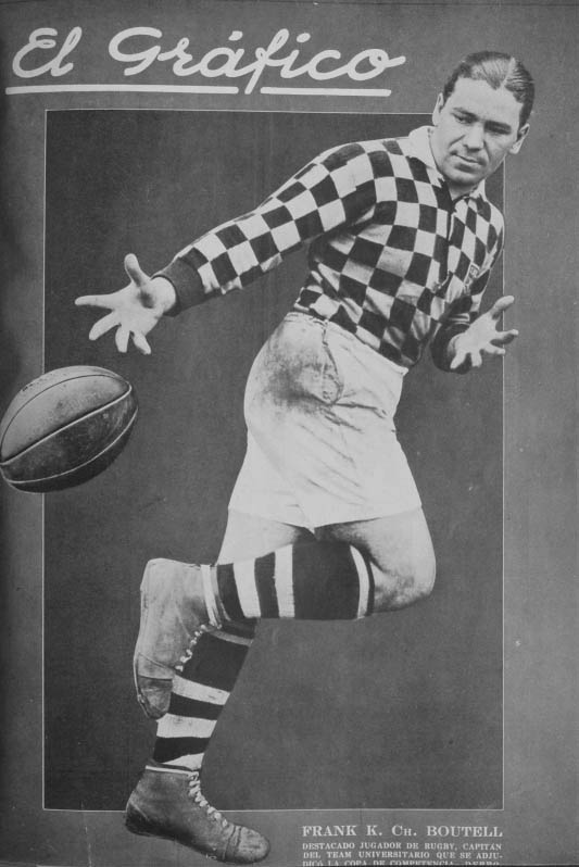 Frank K. Chevallier Boutell, captain of Argentine club Universitario in 1926. He was the first rugby union player to appear on the cover of sports magazine El Gráfico.